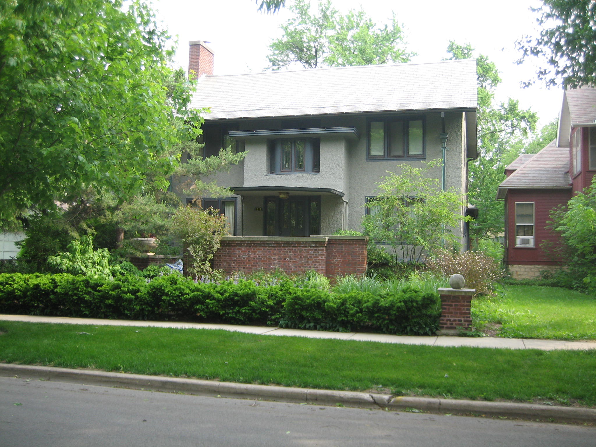 Eben Ezra Roberts House, Oak Park, Illinois. Remodel by architect E.E. Roberts, 1911. Contributing property to the Frank Lloyd Wright-Prairie School of Architecture Historic District.